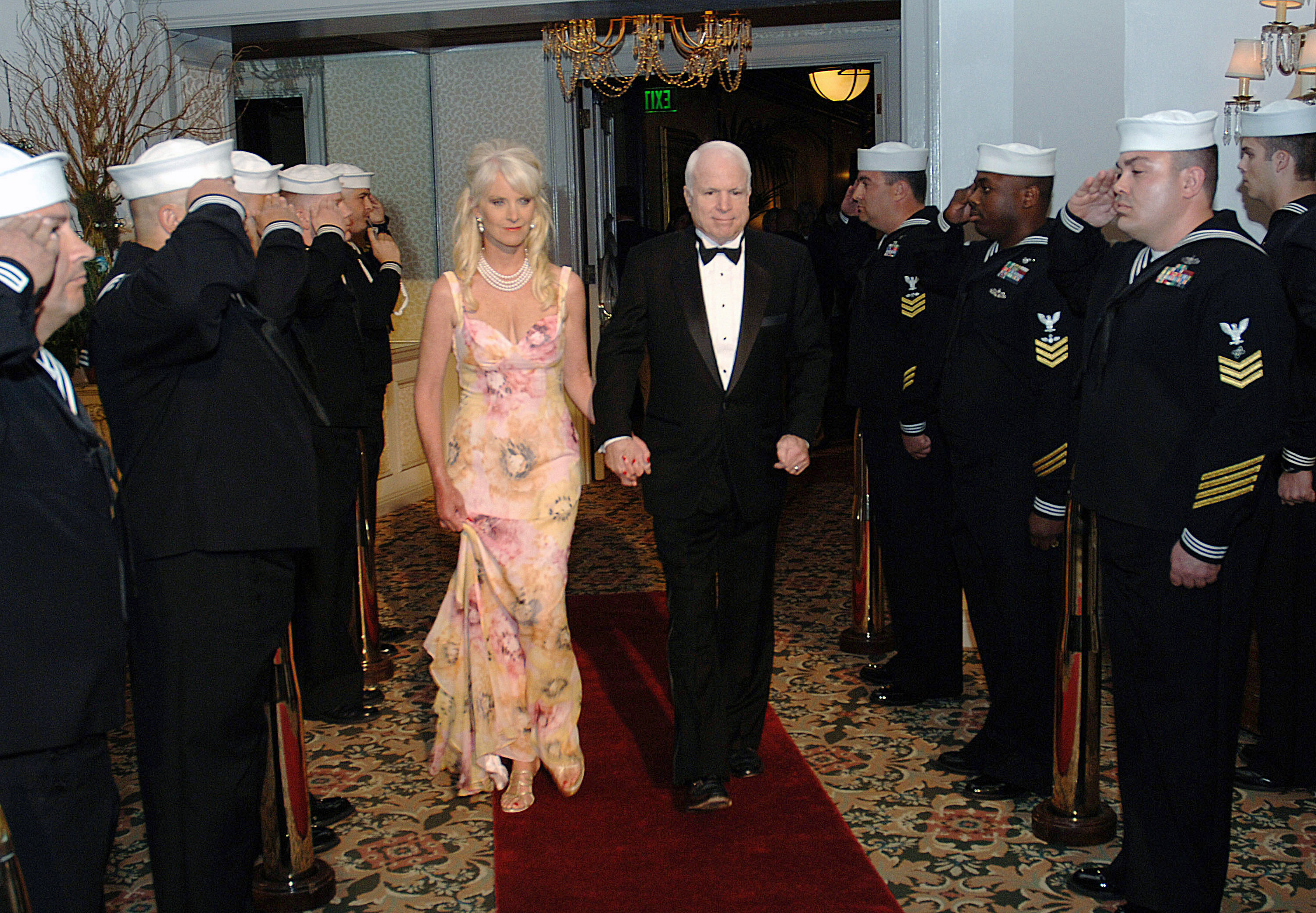 United States Senator of Arizona (AZ), John McCain and his wife Cindy pass through US Navy (USN) Sideboys as their arrival is announced as distinguished guests for the 21st annual Coronado Salute to the Military Ball held at Hotel Del Coronado hotel, in Coronado, California (CA). Location: CORONADO, CALIFORNIA (CA) UNITED STATES OF AMERICA (USA)